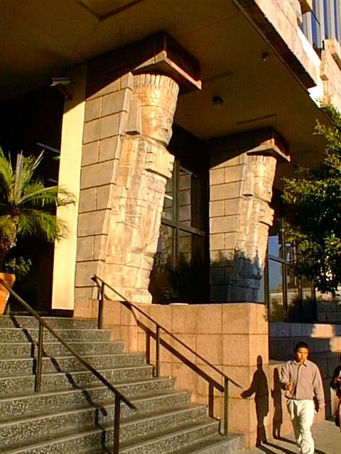 La Curacao Department Store. Pico Union, Los Angeles, CA